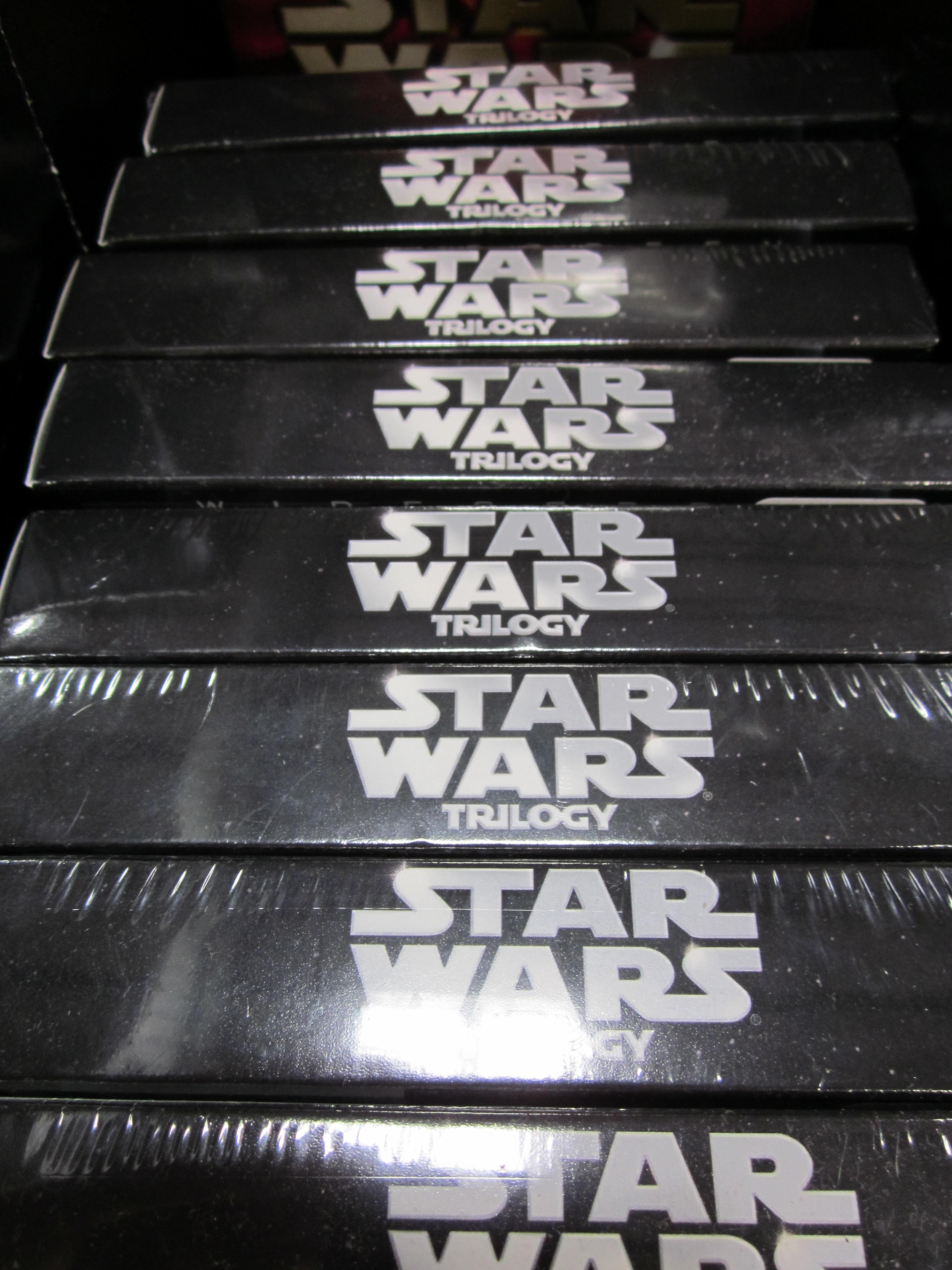 The Star Wars Trilogy DVD box set at Costco in South San Francisco, California on El Camino Real.